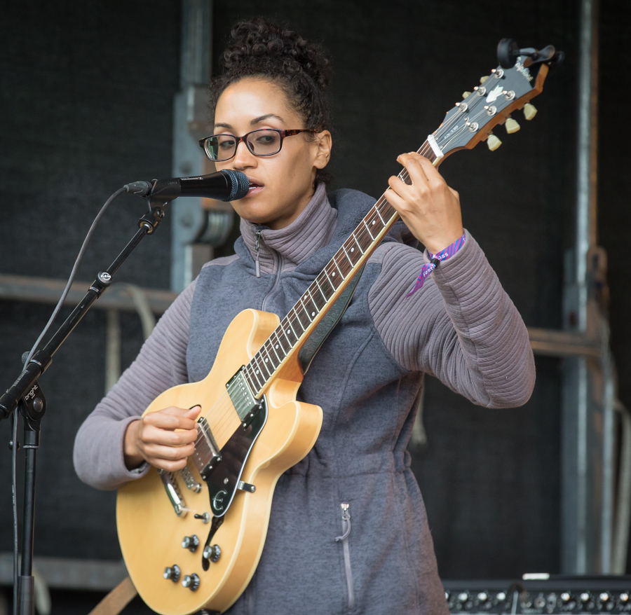 Kadhja Bonet at the minor stage in the Vigeland Park. The concert was part of Piknik i Parken and took place on 23. June 2017 in Oslo. Lineup: Kadhja Bonet (guitar and vocal) and Unidentified (guitar).